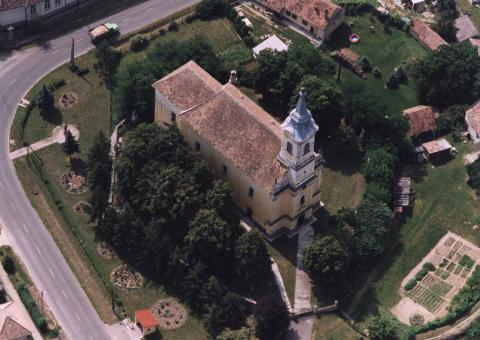 Ugod, Hungary, aerialphotgraphy. Szent Péter és Pál római katolikus templom This is a photo of a monument in Hungary, Identifier: 10548